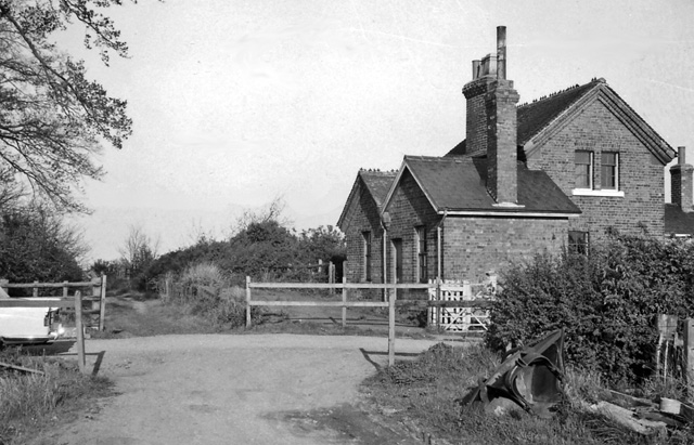 Braceborough Spa Halt (converted). View eastwards, towards Bourne; ex-GNR Essendine - Bourne branch. The Halt was closed with the line on 18/6/51, the station having been staffed until 2/34.